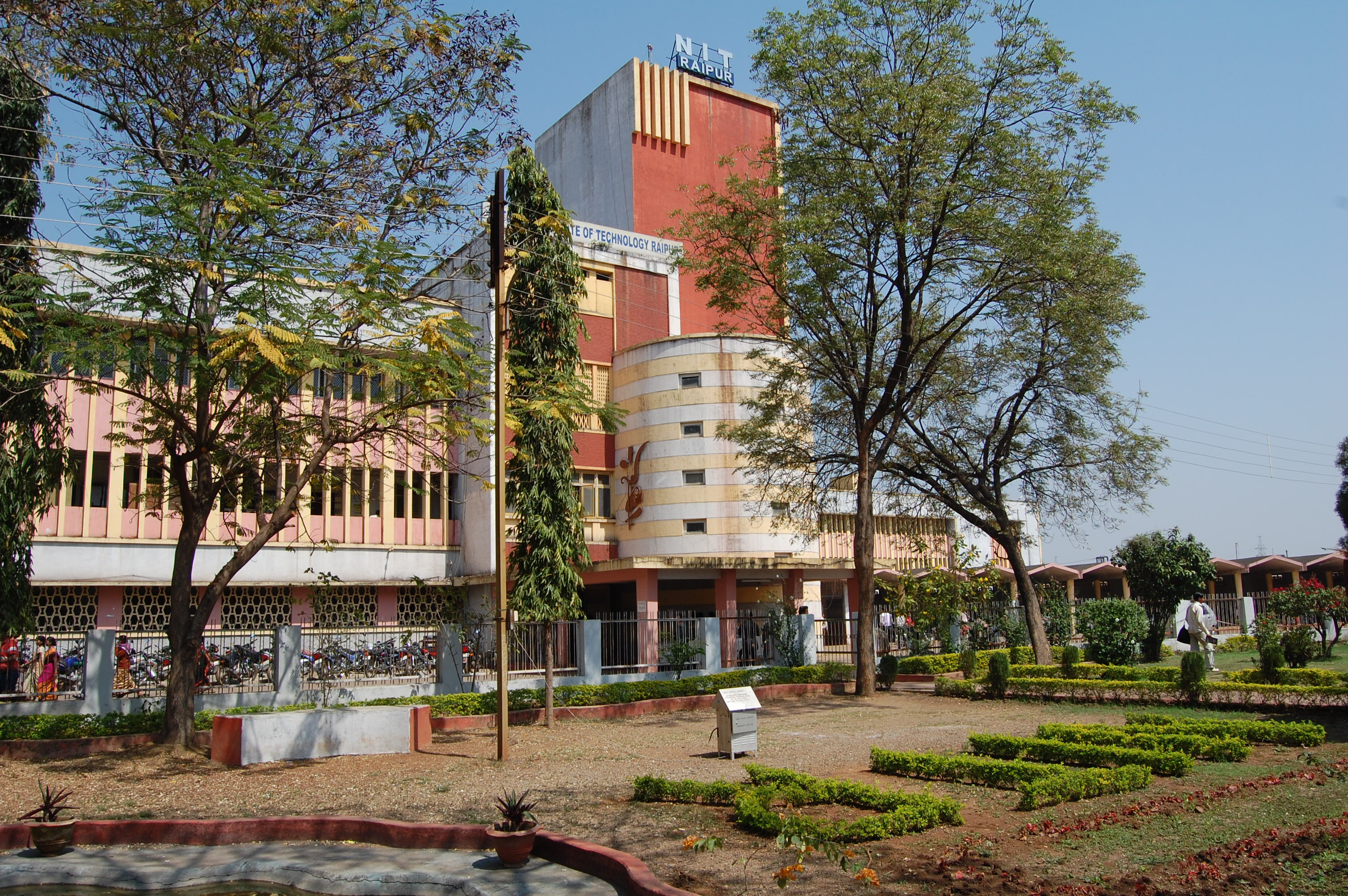 Picture of National Institute of Technology Raipur, taken from central garden.